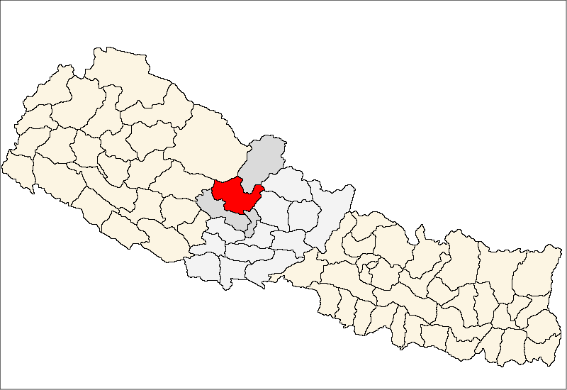 FrenchCarte de localisation dudistrict de Myagdi(wp-FR),au Népal (wp-FR).EnglishLocation map ofMyagdi District(wp-EN),in Nepal (wp-EN).